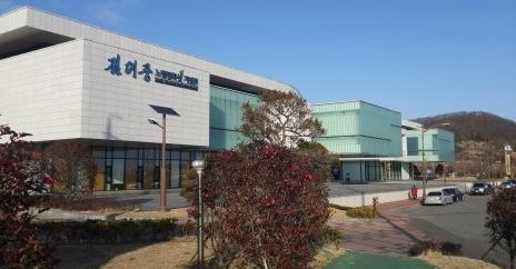 Full scenery of KDJ Nobel Peace Prize Memorial